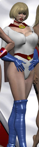 Power Lass from by Mr. X